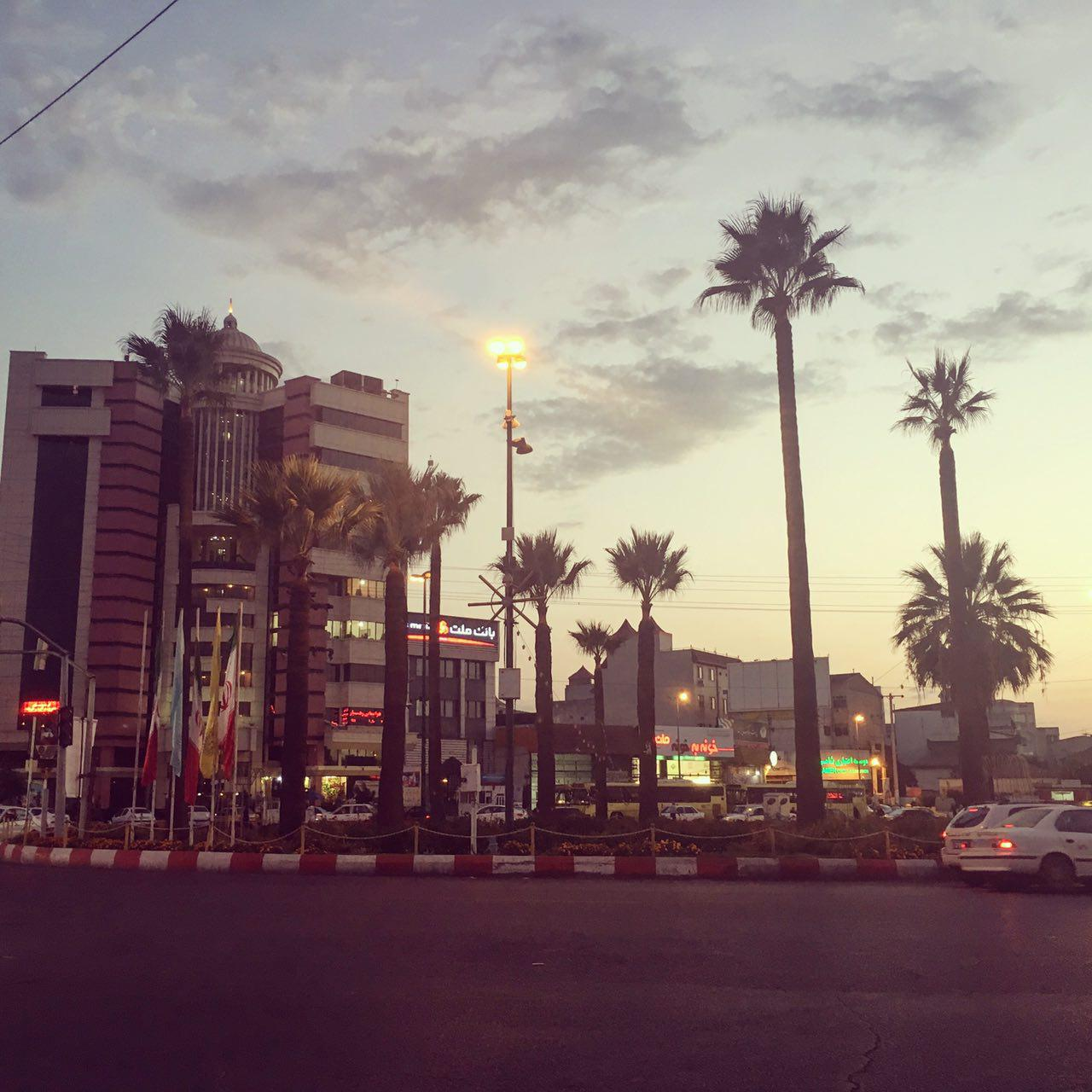 17 Shahrivar field at Amol (photo by: iphone 6s)